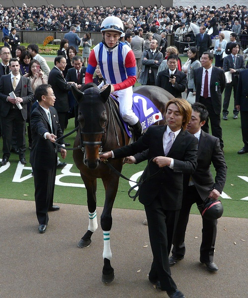 Victoire-Pisa20101128